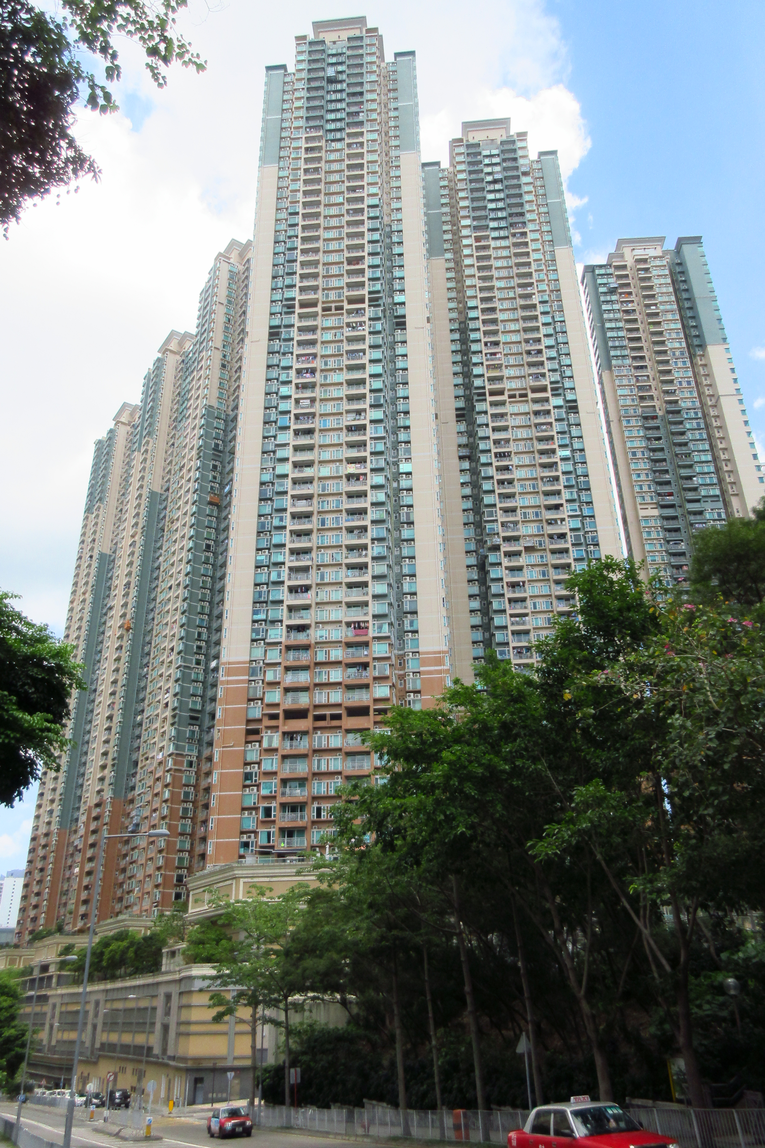 HK TKL 調景嶺 Tiu Keng Leng 彩明街 Choi Ming Street 都會駅 MetroTown in May 2018